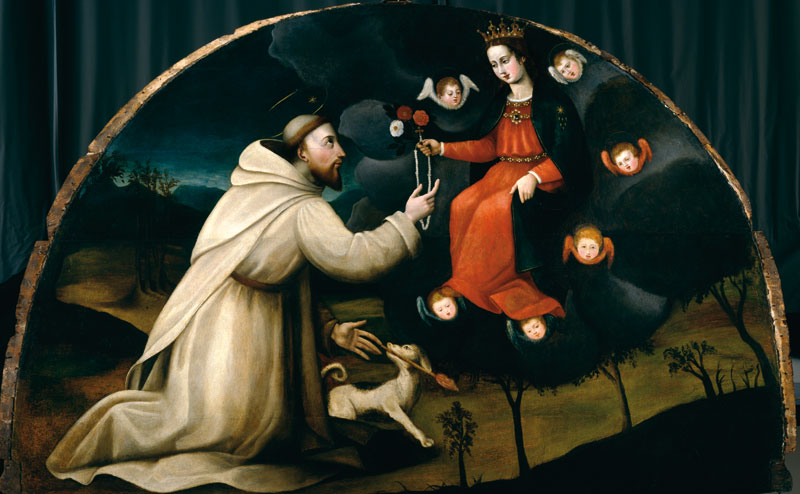 Saint Dominic Receives the Rosary painted by Plautilla Nelli.